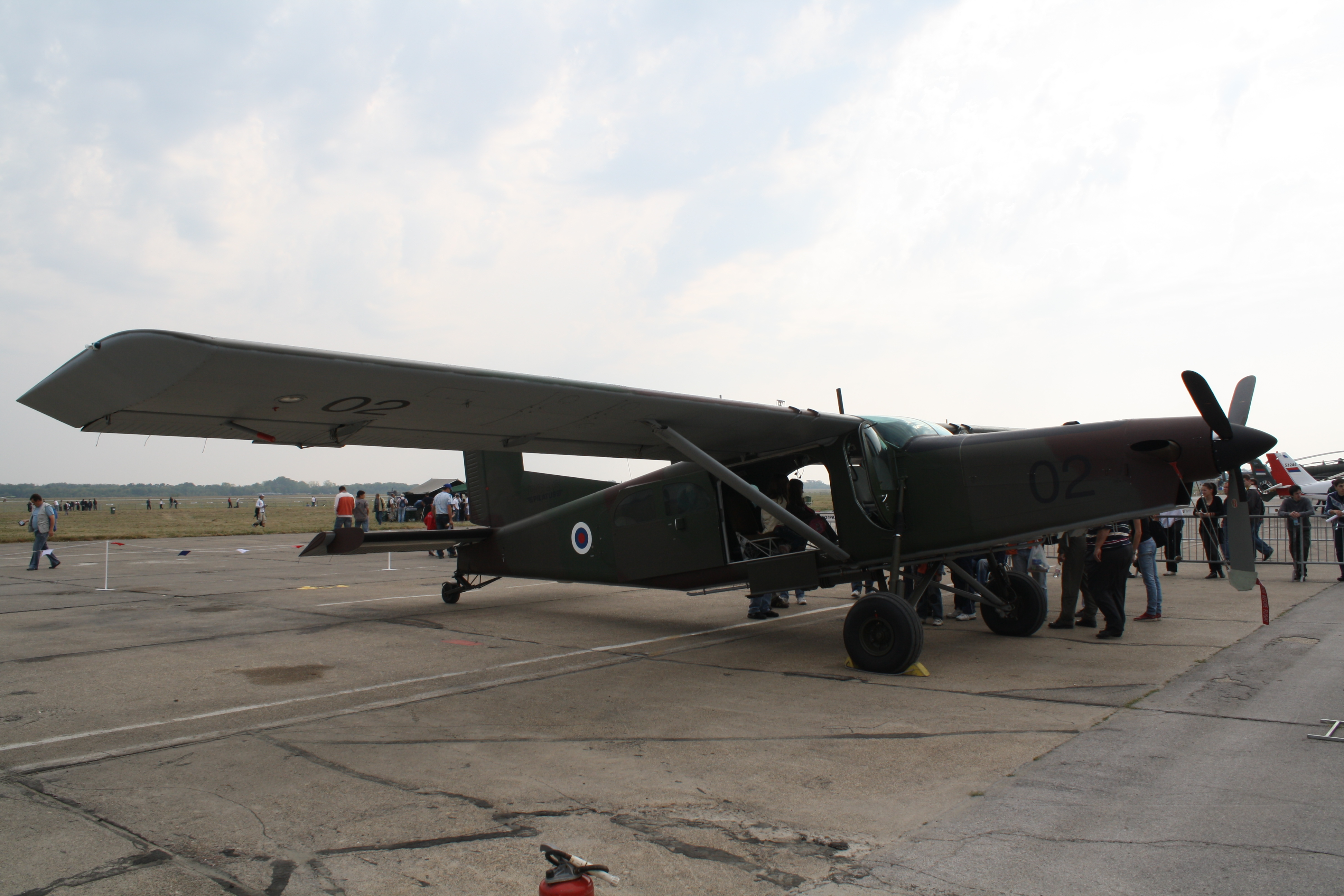 PC-6 Porter No.02 from Slovenian Air Force at Batajnica airbase during the Batajnica 2009 airshow. Авион ПЦ-6 бр. 02 из састава Бригаде ваздухопловства и ПВО Словеначке војске на аеромитингу Батајница 2009.